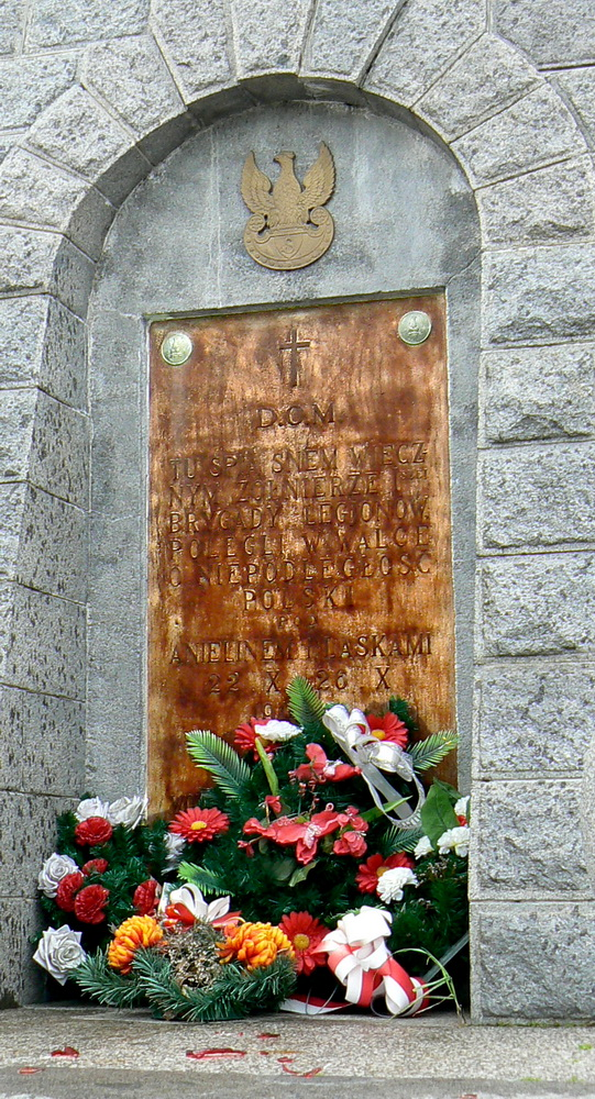 The monument-mausoleum of legionnaires in Brzustów (Żytkowice)